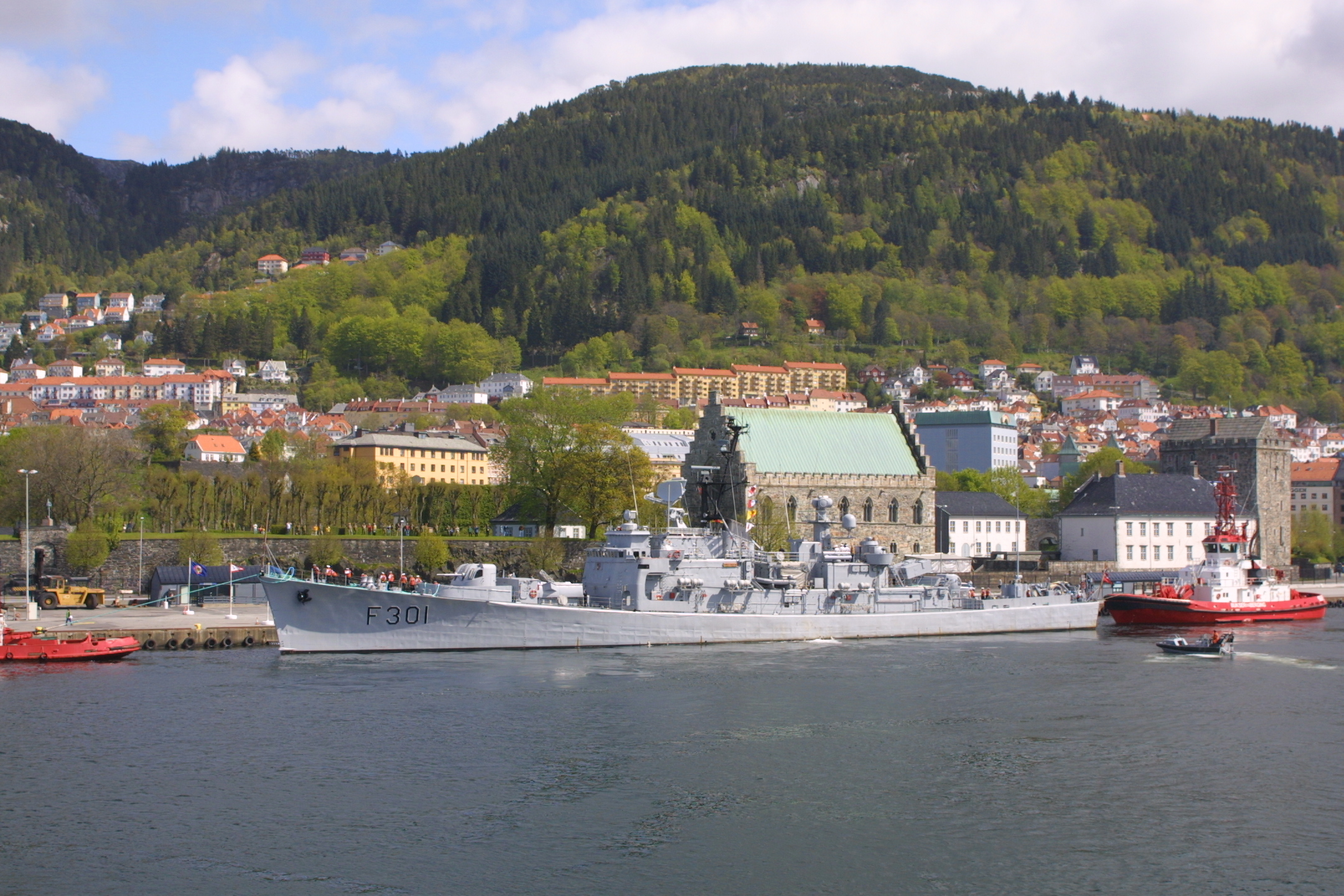 The last time HNoMS Bergen was in Bergen, Norway before being decommissioned in 2005. Private photo. In the background is Bergenhus Fortress. Rosenkrantz Tower to the far right. Haakonshall almost in the centre.